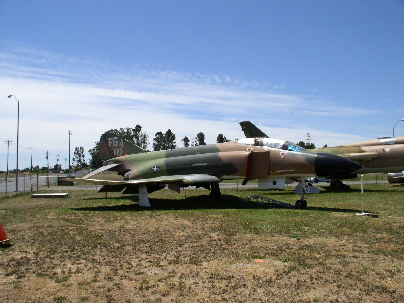 McDonnell Douglas F-4 Phantom II. Taken in Pacific Coast Air Museum, Santa Rosa, California, USA.